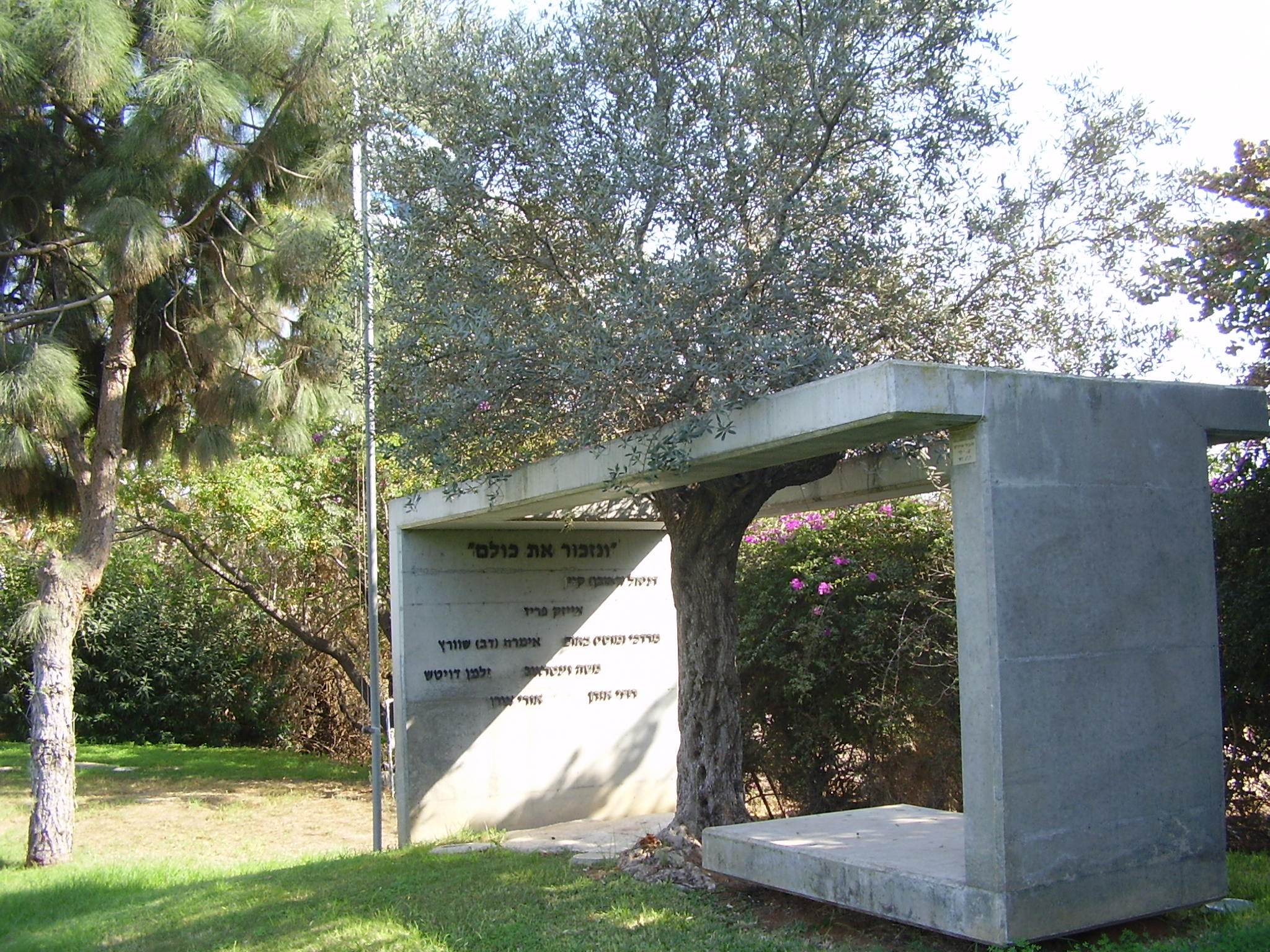 war memorial in udim, Geography of Israel